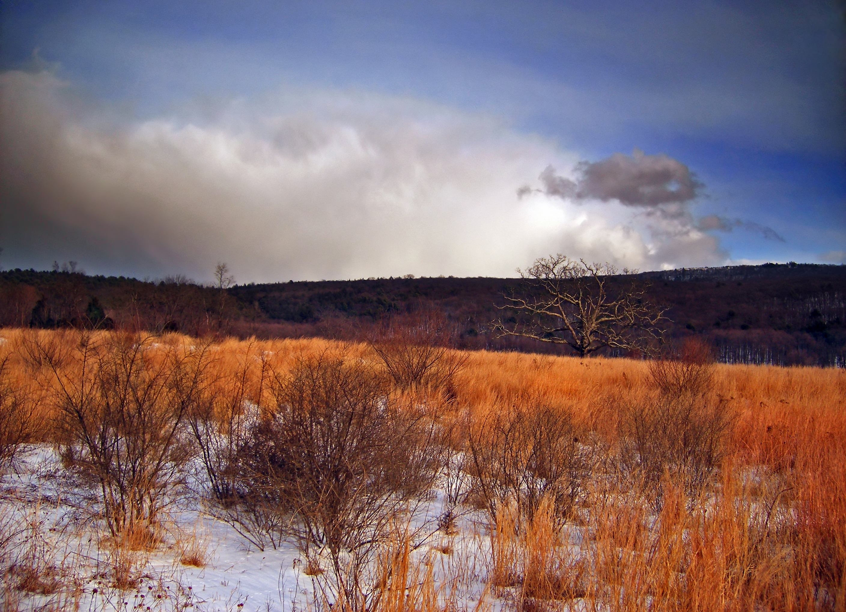 Meadow, Walpack Valley, Sussex County, within the Delaware Water Gap National Recreation Area. The meadow, stretching a great distance along the foothills of Kittatinny Mountain, was once a farmer's field. Late-spring views of this meadow here and here; early-autumn view here.